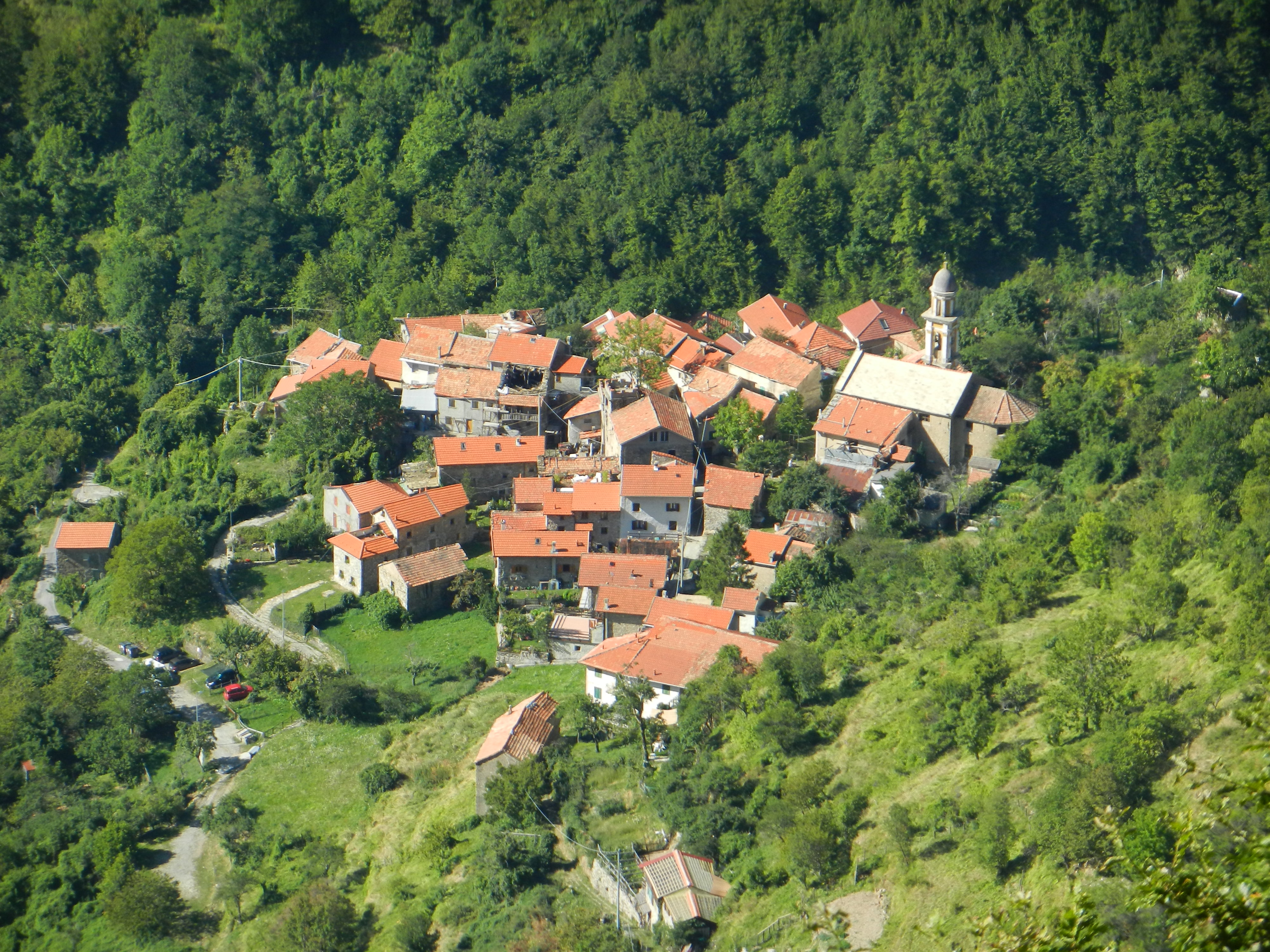 Valbrevenna (province of Genoa, Italy), view of the village of Tonno